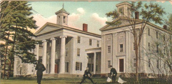 Scan of a postcard. Caption reads: Pentecostal Collegiate Institute, formerly the Lapham Institute, North Scituate, R.I.